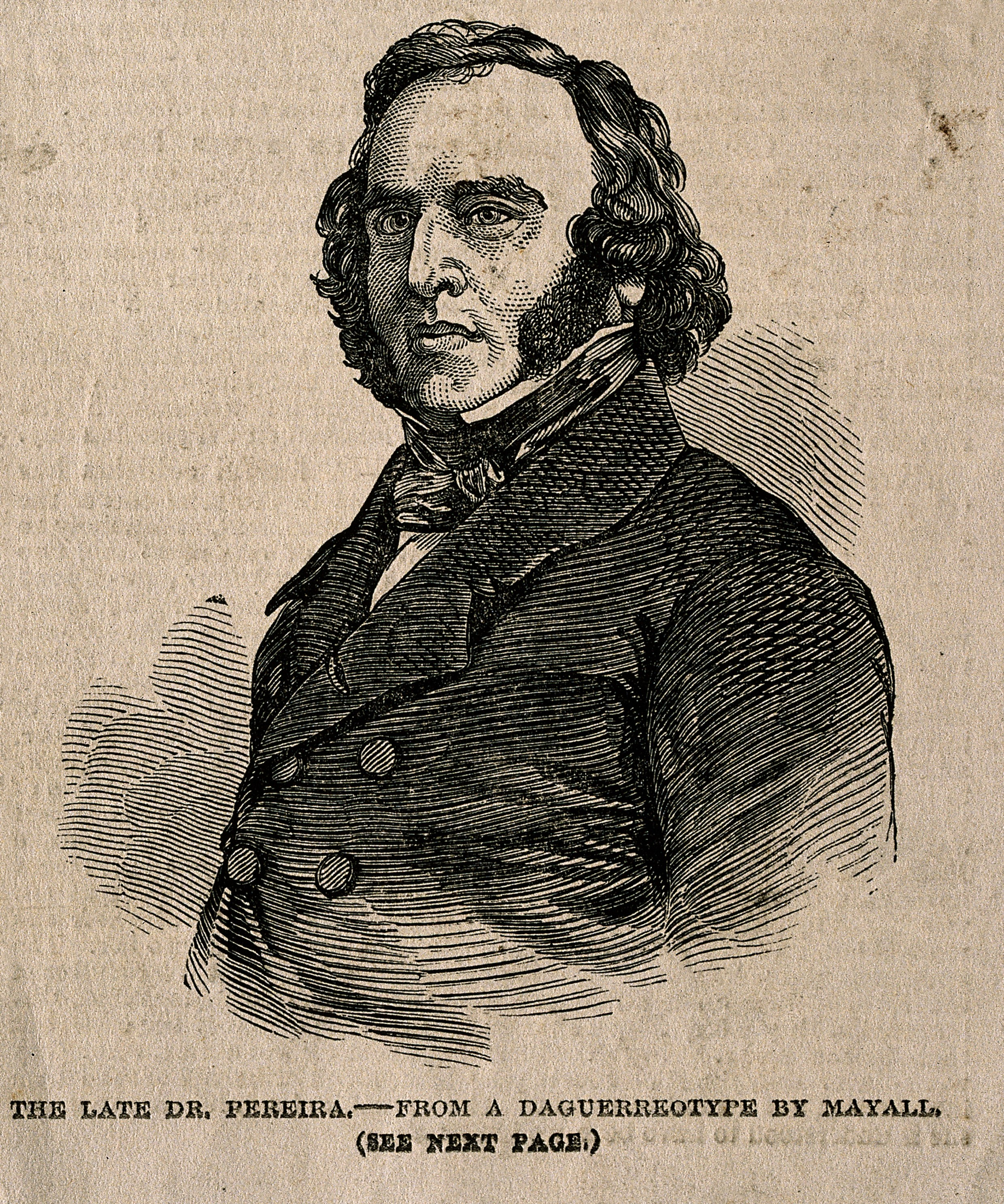 Jonathan Pereira. Wood engraving after Mayall. Iconographic Collections Keywords: portrait prints; Jonathan Pereira; wood engravings